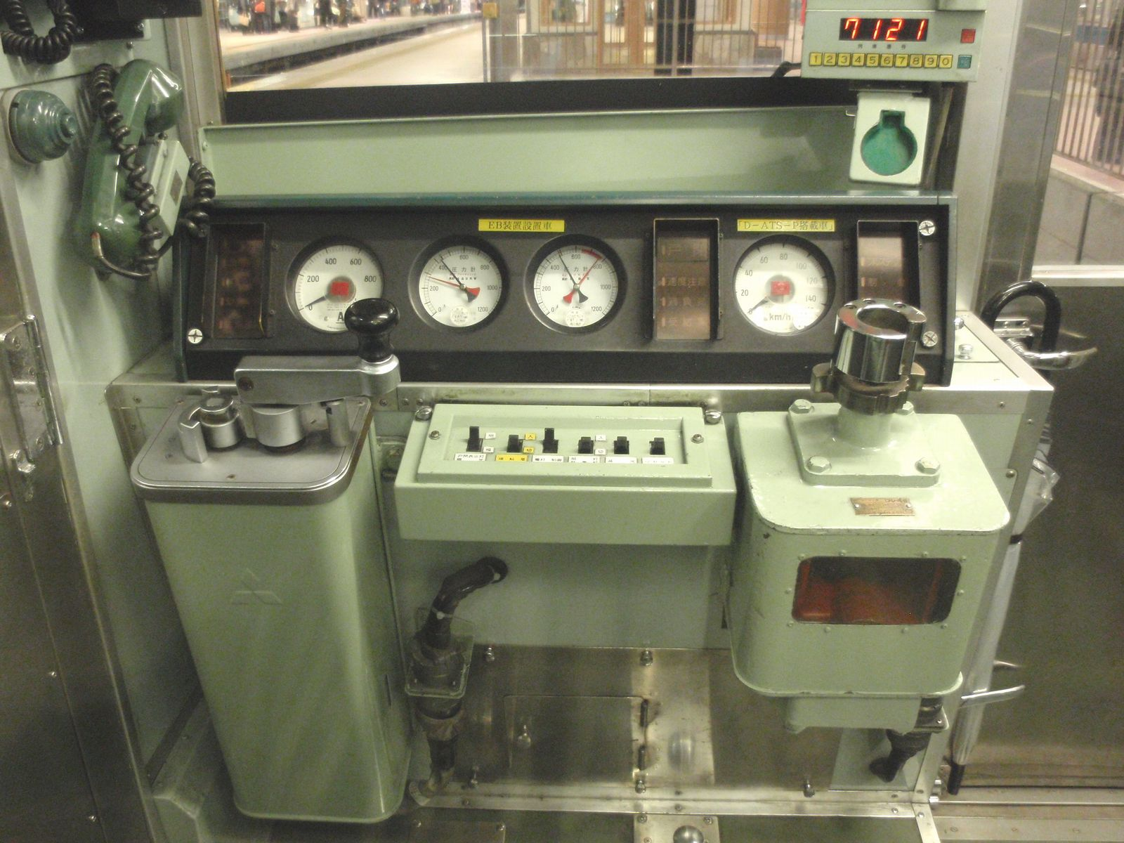 Cockpit of Odakyu Electric Railway Company, EMU Type 8000